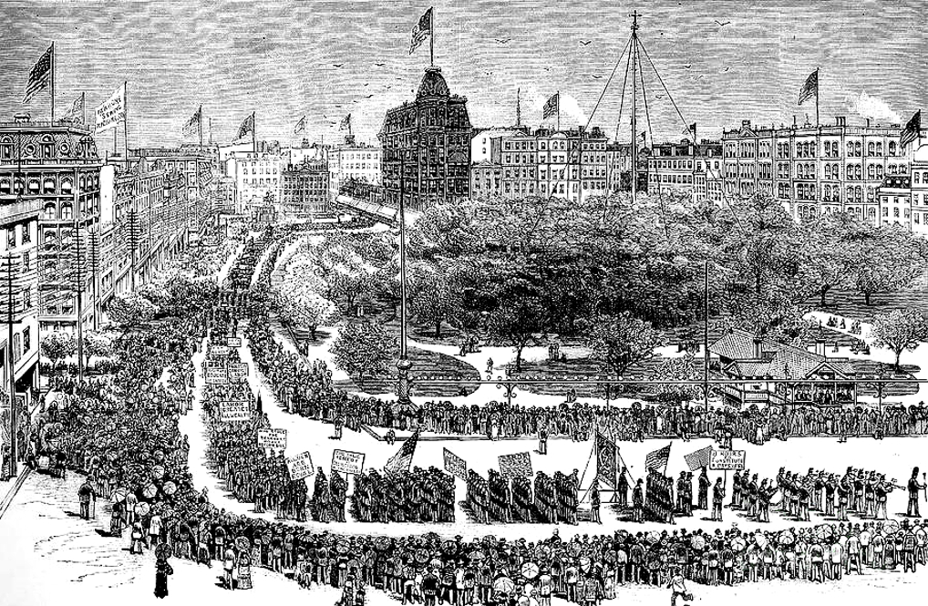 Labor Day Parade, Union Square, New York, 1882 (Lithographie)